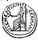 738 woodcuts illustrating the work A Dictionary of Roman Coins, Republican and Imperial (1889). To identify a coin please look at the filename to identify a page number, and check the Dictionary on numiswiki